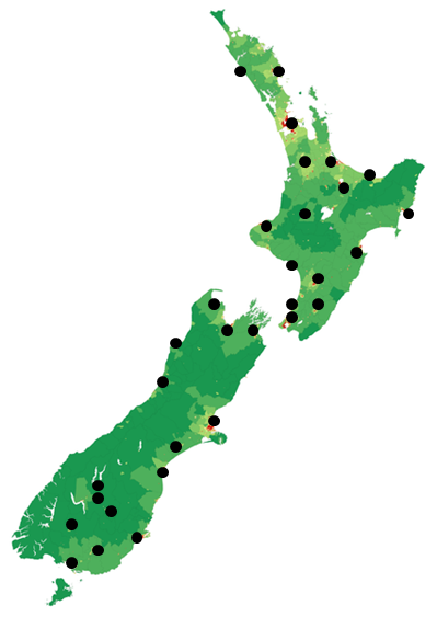 This is a map of Life FM frequencies and population density in New Zealand.